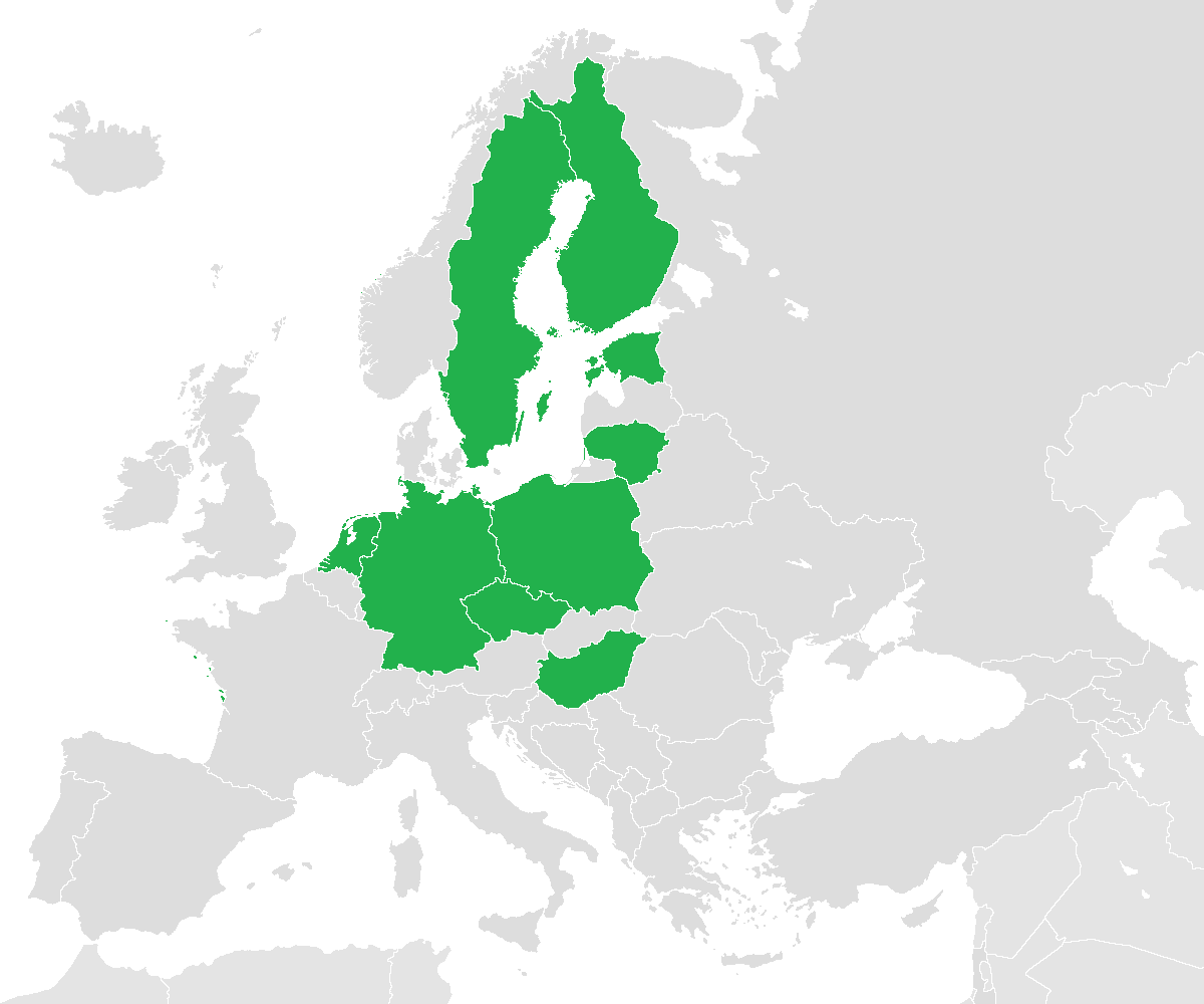 European U23 Championships in Athletics host countries.